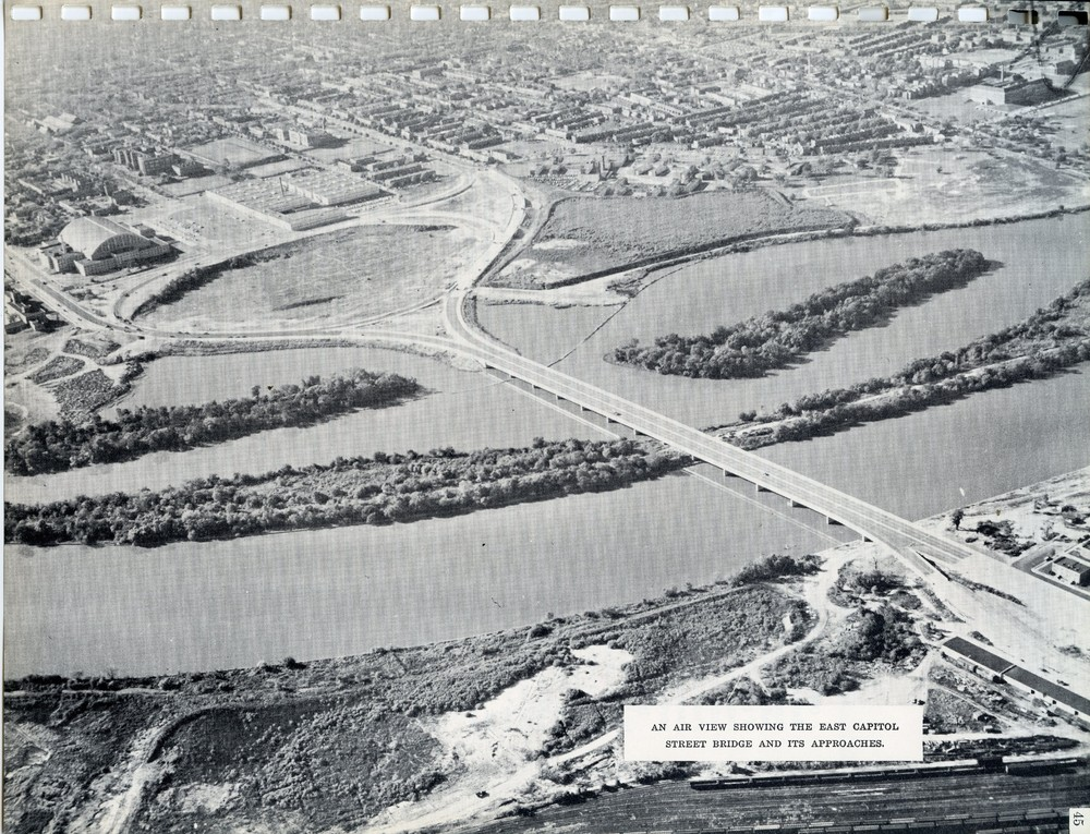 View of the East Capitol Street Bridge, now named the Whitney Young Memorial Bridge. This now has 6 lanes running east and west. It was completed in 1955. This aerial view shows the DC Armory and future site of RFK Stadium in the background.